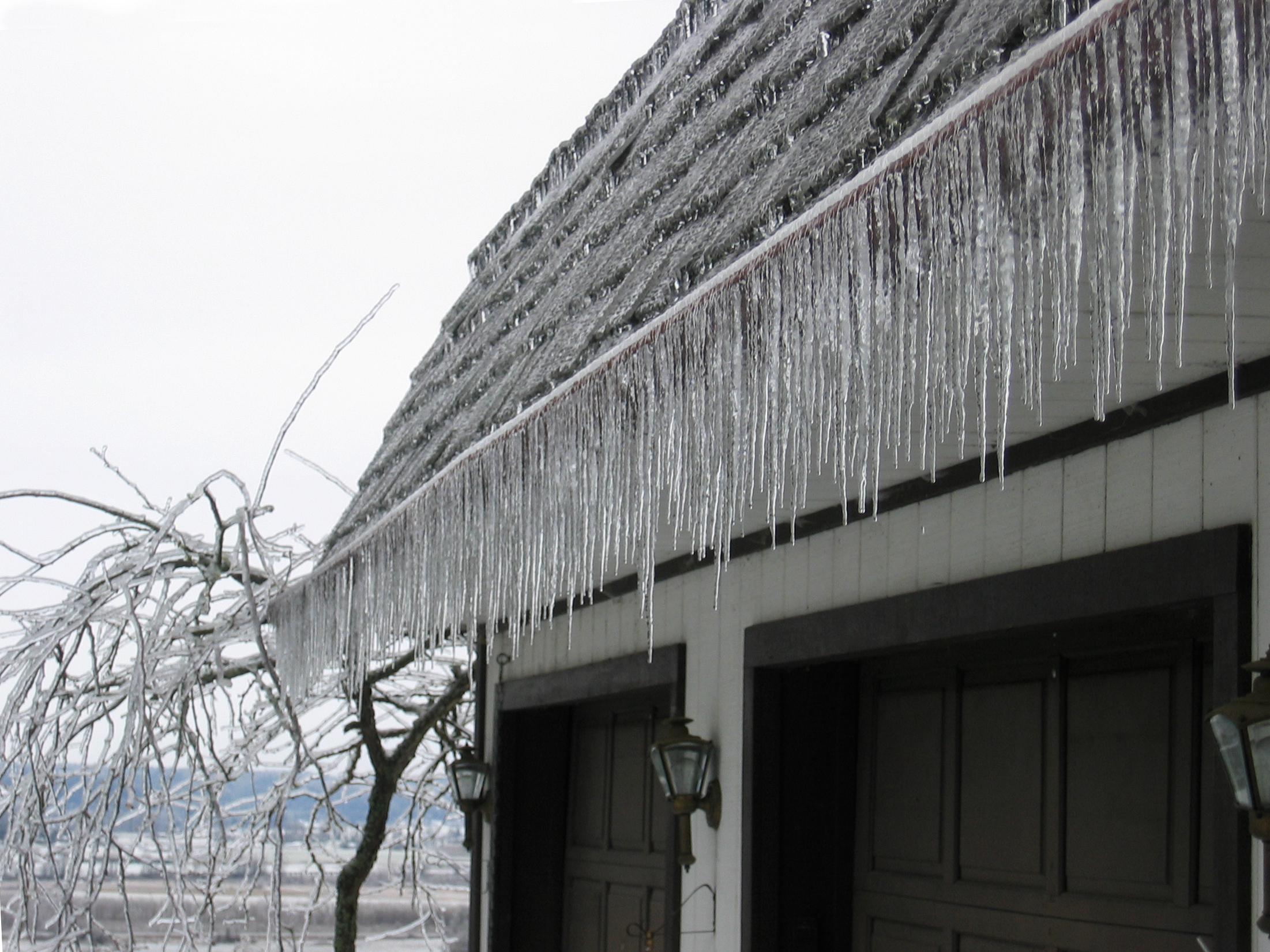 Photo of a row of icicles in winter in Snohomish County, Washington, USA.